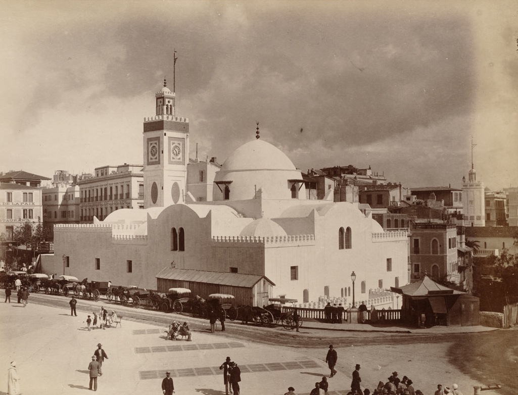 BPLDC no.: 08_04_000352 Page Title: Djamäa el Djedid - New mosque. Hanefi sect Collection: Tupper Scrapbooks Collection Album: Volume 1: Algeria. Call no.: 4098B.104 v1 (p. 28) Creator: Tupper, William Vaughn Genre: Scrapbooks; Albumen prints Extent: 1 photographic print mounted on page : albumen ; page 33 x 39 cm. Description: Scrapbook page contains one photograph showing the Djamäa el Djedid (New) mosque, with annotated information about the mosque's architecture. Transcription: Built 1661 in form of Greek cross by an Italian architect who was put to death by the Dey for using that form. The square tower or minaret is about 90 feet high and has an illuminated clock. Its exterior is effective, its interior bare and white washed. Unlike Tunis infidels can get admission to the mosques of Algiers. Notes: Page description supplied by cataloger, derived from captions and/or annotated information. BPL Department: Print Department Rights: No known restrictions. Flickr data on 2011-08-15: Camera: Sinar AG Sinarback 54 FW, Sinar m License: CC BY 2.0 User: Boston Public Library BPL